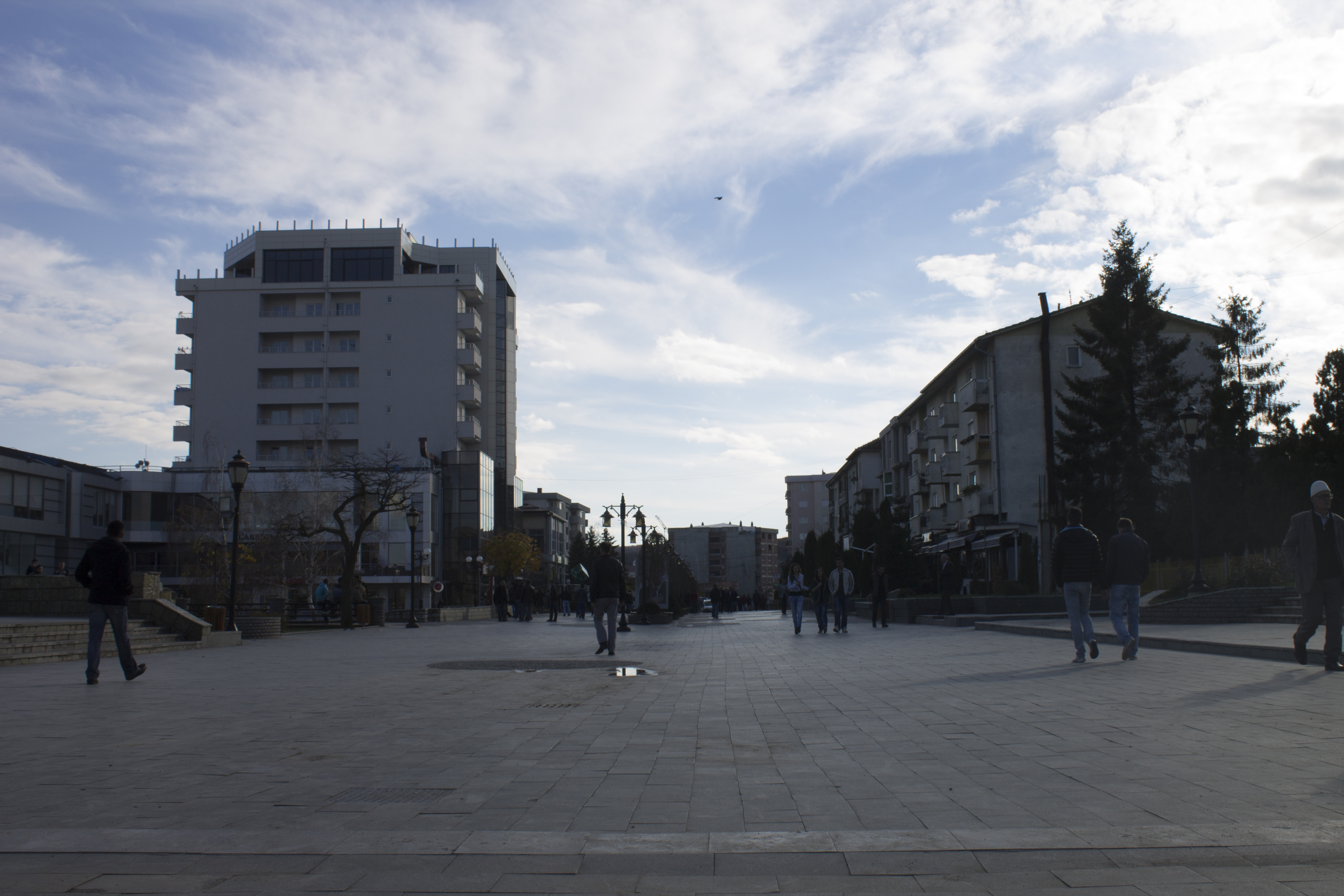 Sheshi "Adem Jashari" ne Skenderaj